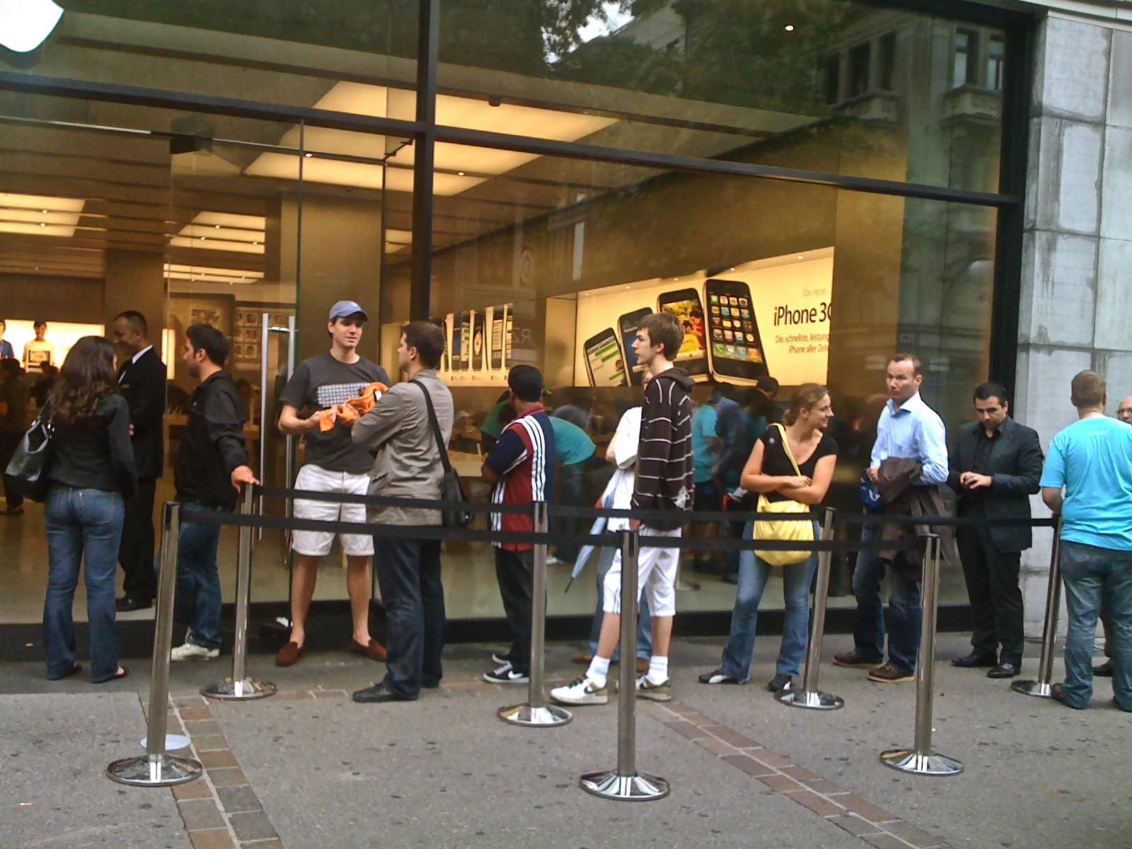 Photo taken at Zurich's Apple Store, on the launching-morning of the iPhone 3G S, June the 19th of 2009.